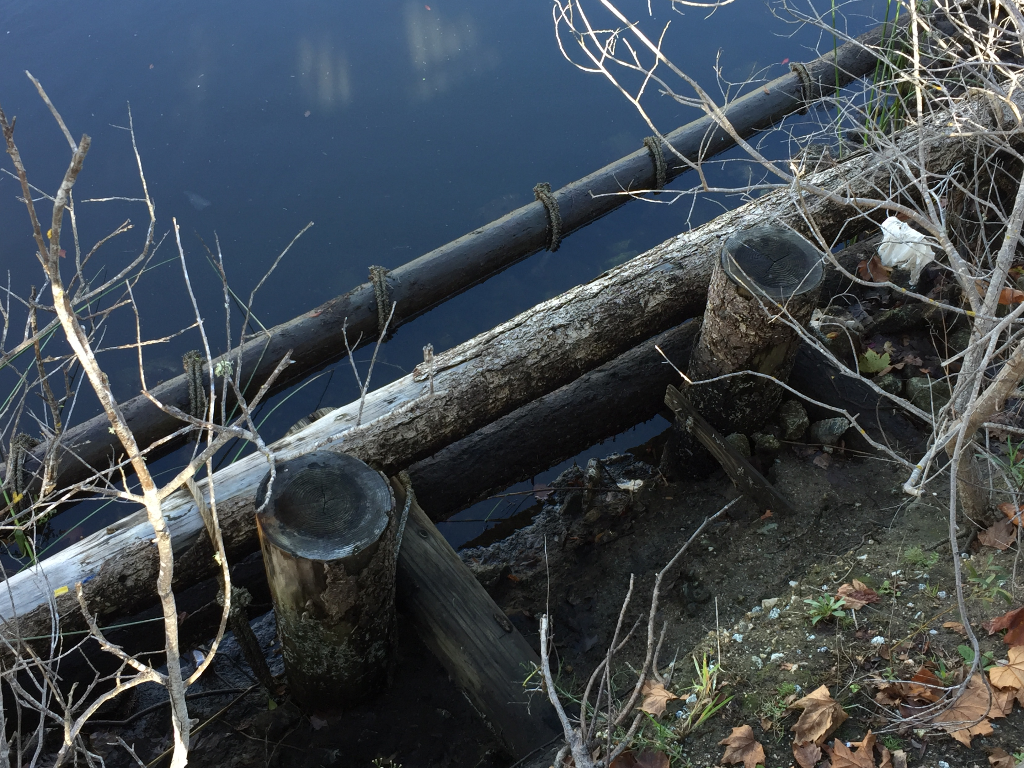 What is left of the original San Lorenzo River boardwalk along its western banks southeast of downtown Santa Cruz.